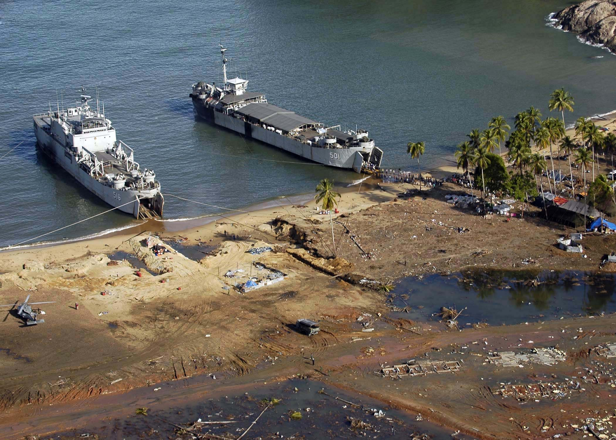 Tjalang, Sumatra, Indonesia (Jan. 9, 2005) - Indonesian Navy landing craft and a U.S. Navy Seahawk helicopter deliver relief supplies and evacuate Indonesian citizens in Tjalang, Sumatra, Indonesia. Helicopters assigned to Carrier Air Wing Two (CVW-2) and Sailors from Abraham Lincoln are supporting Operation Unified Assistance, the humanitarian operation effort in the wake of the Tsunami that struck South East Asia. The Abraham Lincoln Carrier Strike Group is currently operating in the Indian Ocean off the waters of Indonesia and Thailand. U.S. Navy photo by Photographer’s Mate Airman Jordon R. Beesley (RELEASED)